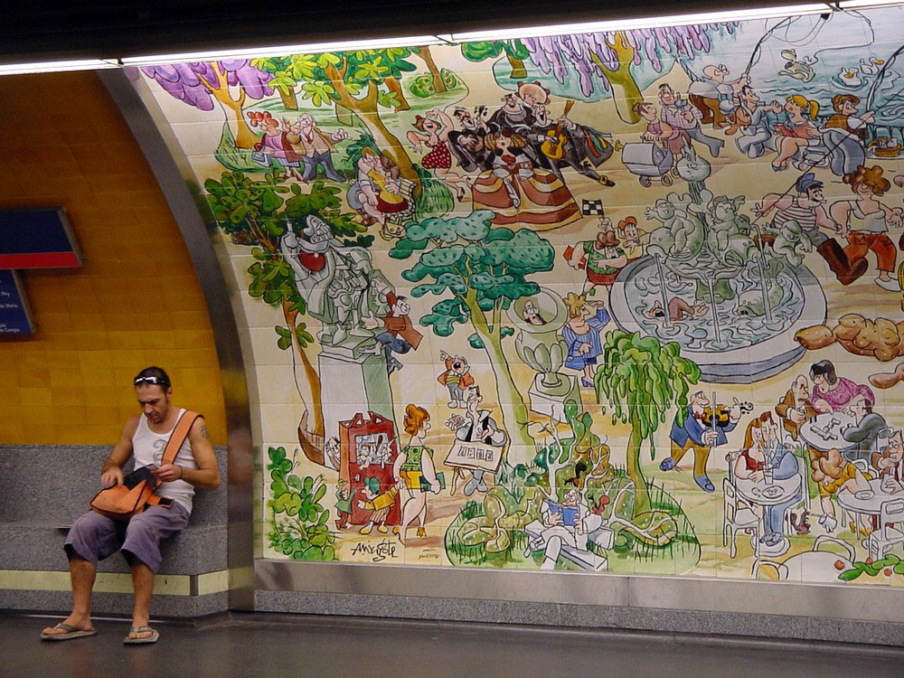 Mural painting in Retiro station by Antonio Mingote, Metro Madrid, showing leisure activities in nearby Retiro park.